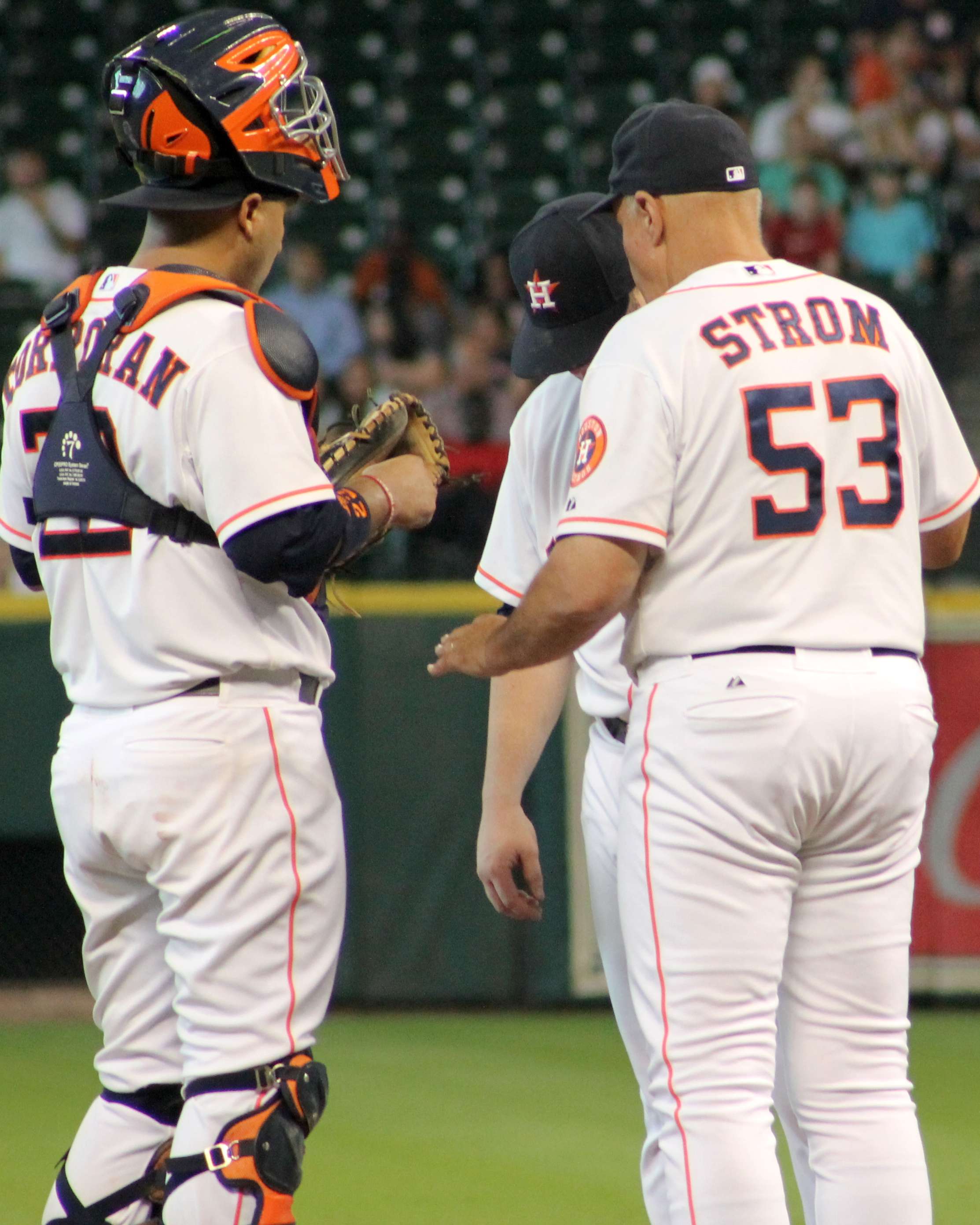 Houston Astros pitching coach Brent Strom talks to a pitcher at Minute Maid Park in July 2014.